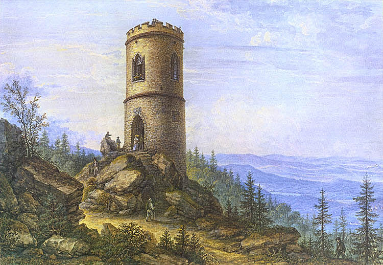 Watchtower on the mountain Klet